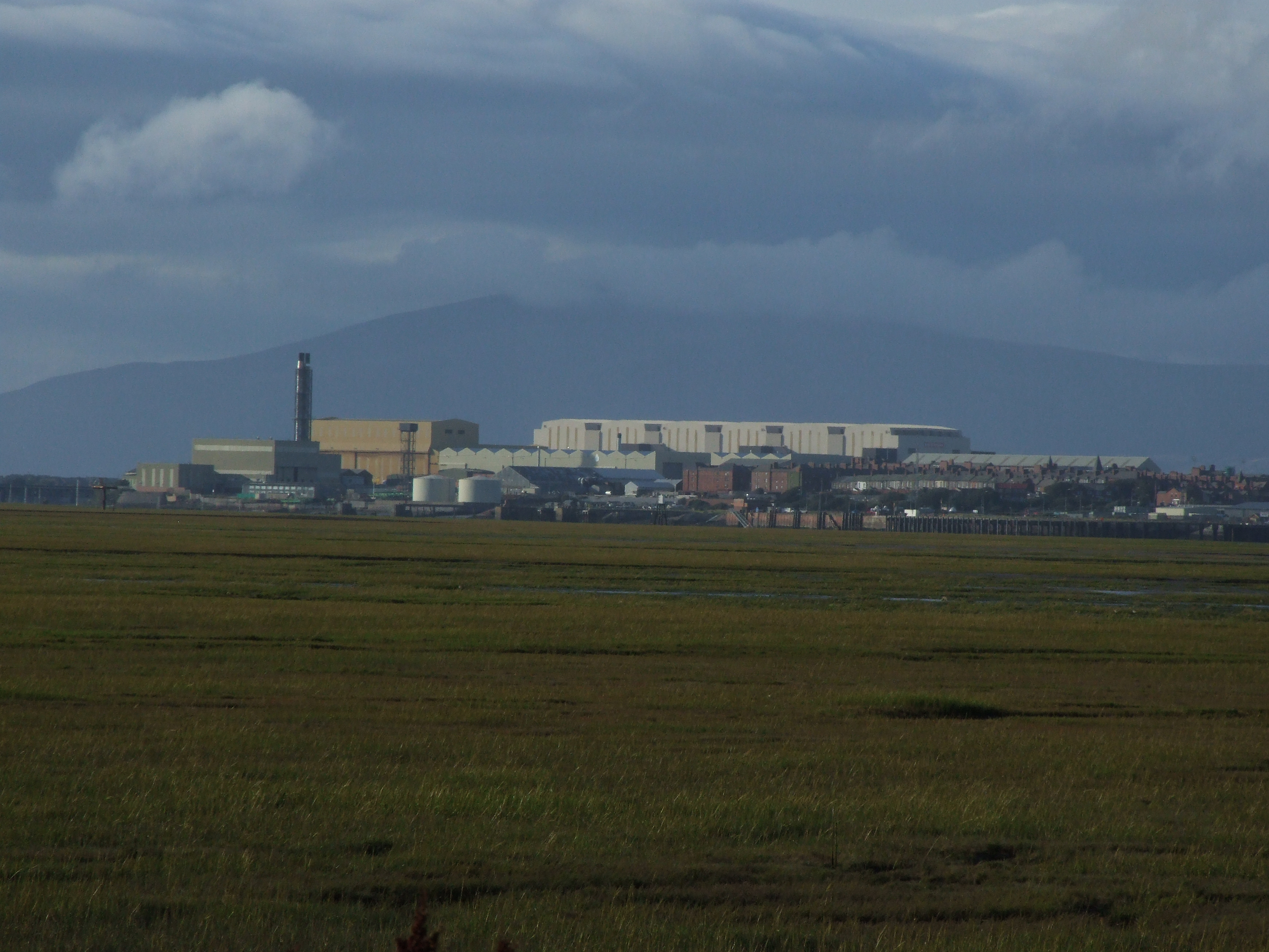 Barrow-in-Furness docks/ port